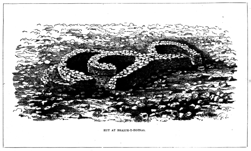 Illustration published in 1877 of a hut from the now-demolished Braich-y-Dinas hillfort, on Penmaenmawr.